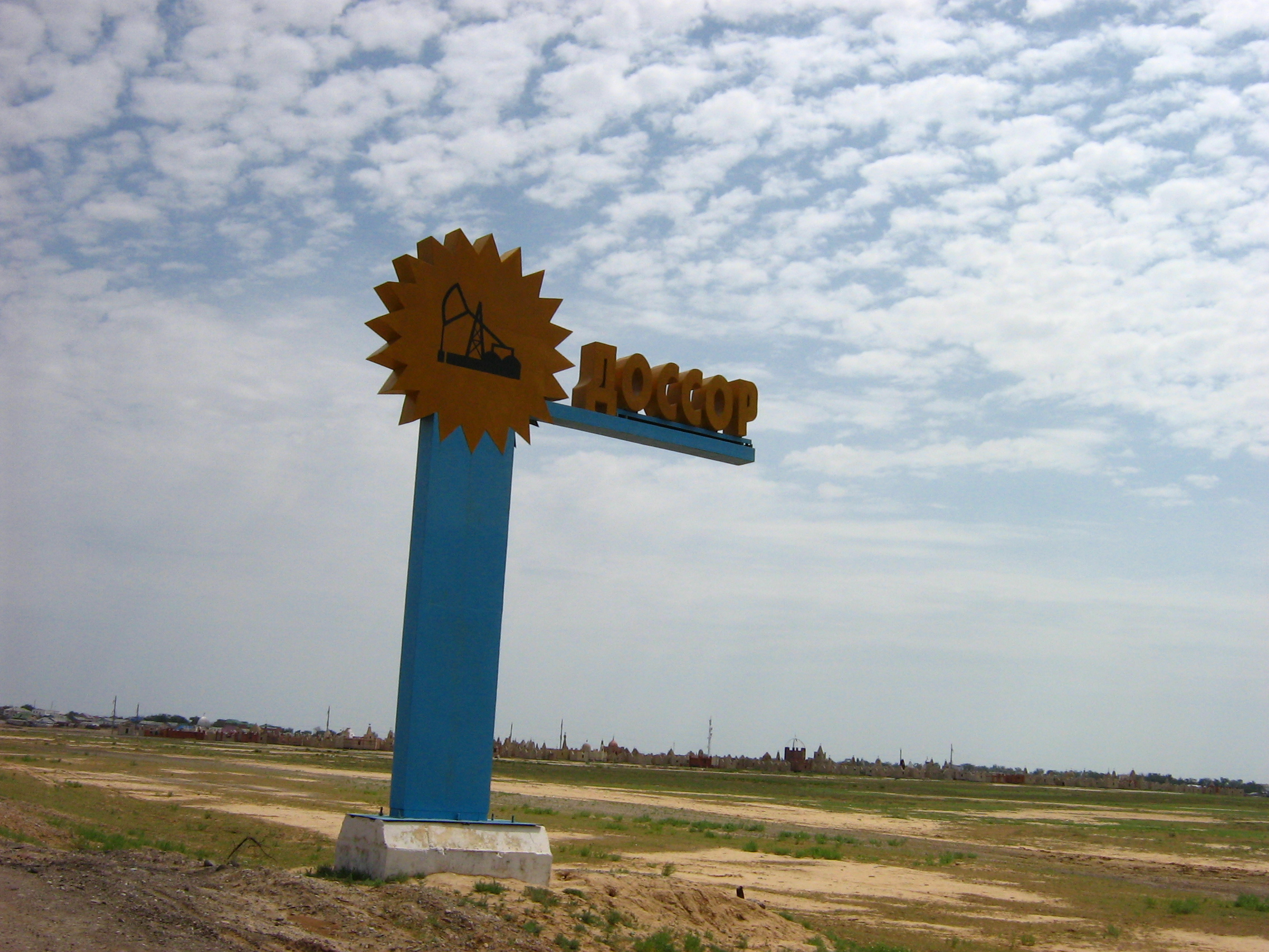 Road sign at the entrance to Dossor